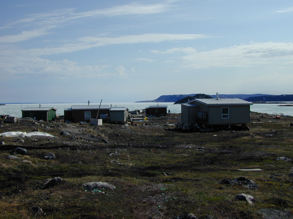 Umingmaktok 20th June 1999. This is the other half of the community. There is no electricty except for that provided by portable generators. The aircraft landing strip is between the two halves.